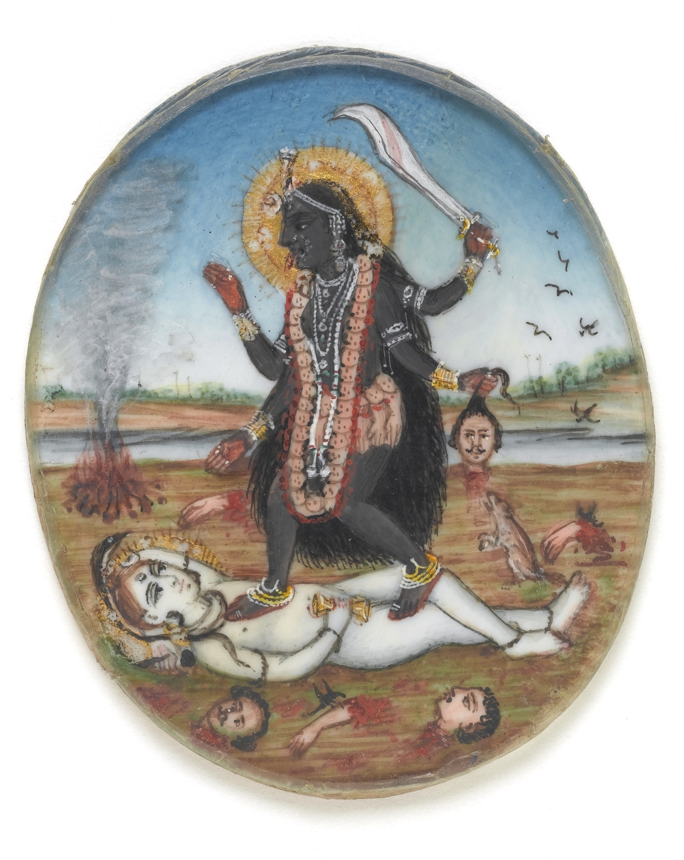 Goddess Kali dancing on Shiva. Iconographic Collections Keywords: Deities